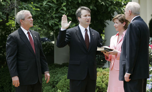 President Attends Swearing-In Ceremony for Brett Kavanaugh to the U.S. Court of Appeals for the District of Columbia Circuit, June 1, 2006, in the Rose Garden. Note: Brett Kavanaugh swearing in by Justice Anthony Kennedy, along with President George W. Bush and Ashley Kavanaugh by Eric Draper.